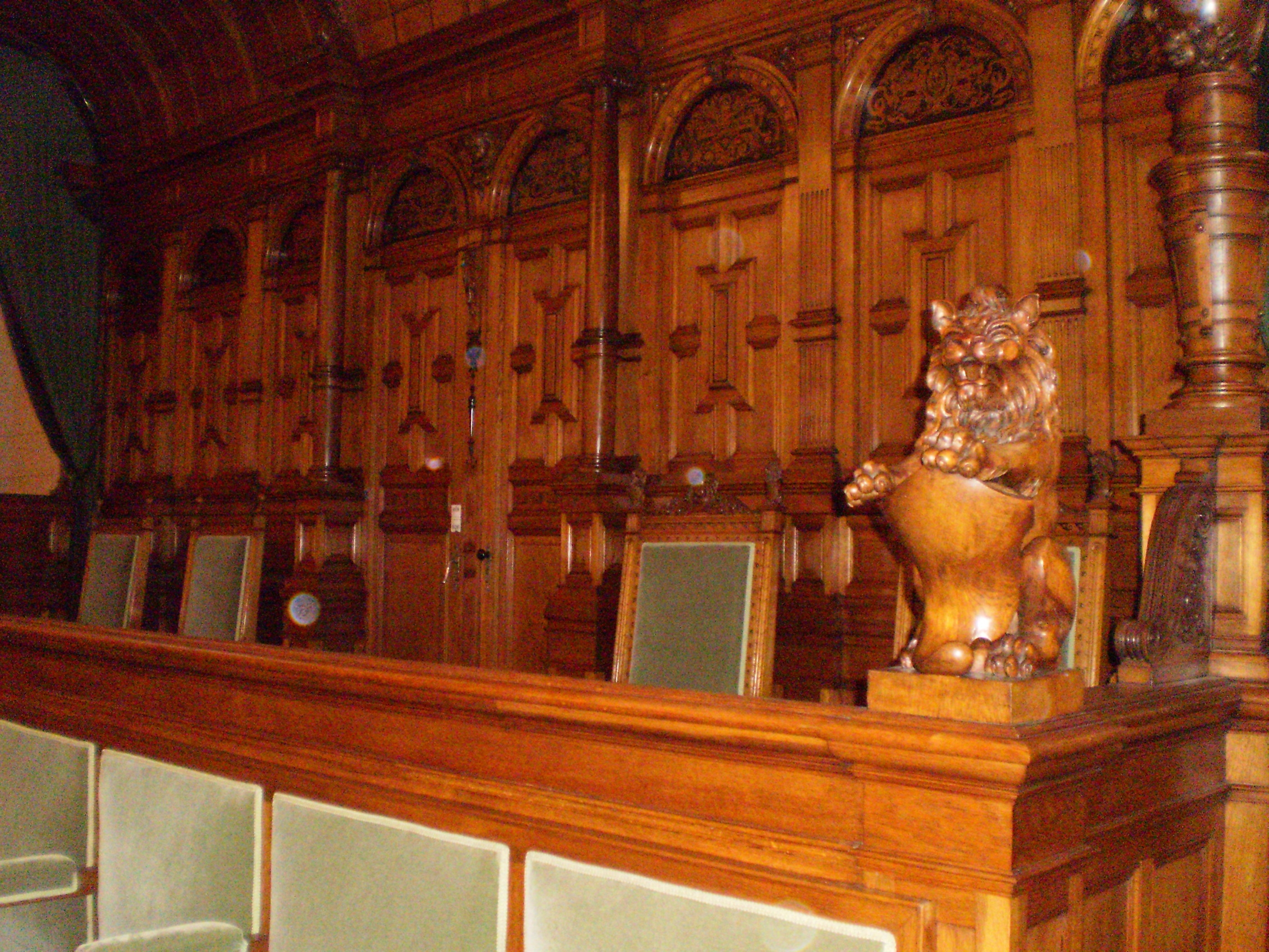 'Royal bench' or 'Wilhelmina bench', Great church, Apeldoorn, the Netherlands